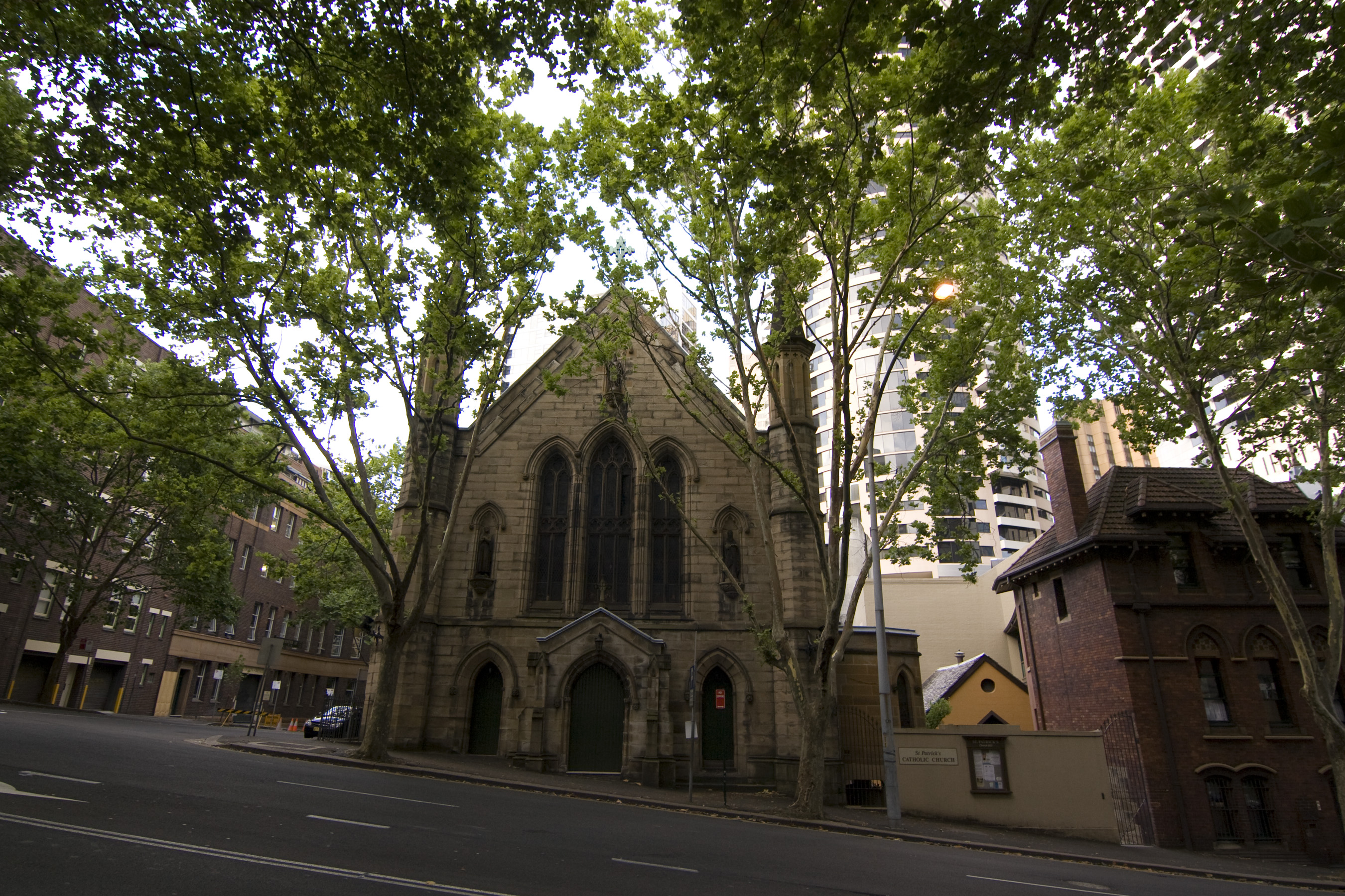 St Patrick's Church, The Rocks, Sydney, NSW 2000, Australia